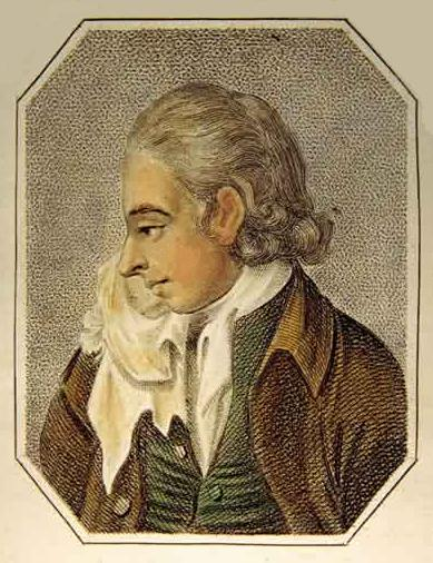 Poertrait of the Rev. James Hackman (baptized 13 December 1752, hanged 19 April 1779), briefly Rector of Wiveton in Norfolk, England, who murdered Martha Ray, singer and mistress of John Montagu, 4th Earl of Sandwich.